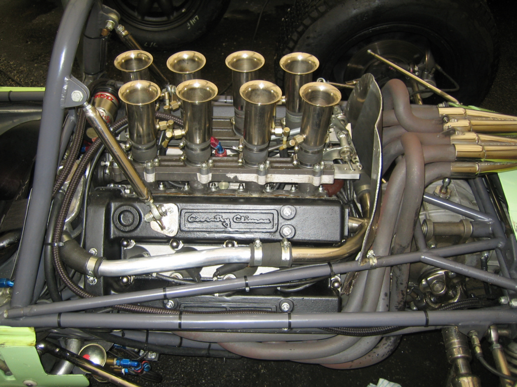 Coventry Climax FWMV 1500cc V8 Formula 1 engine in a Lotus 24